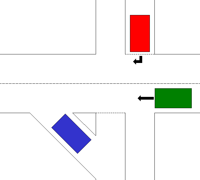 Sliplane